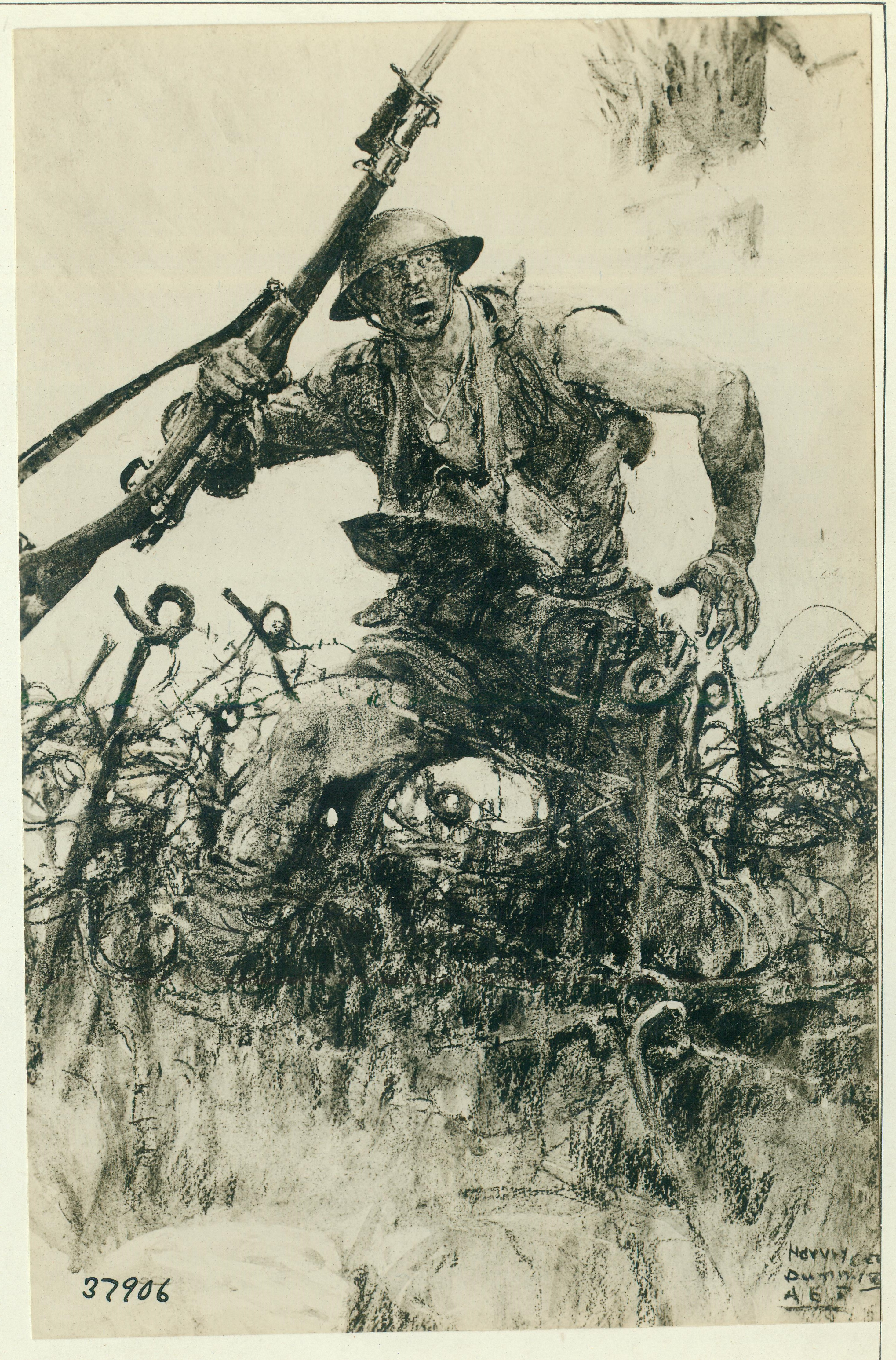 Scope and content: Original caption: Doughboy fighting through barbed wire entanglements. Drawing by official American military artist Captain Harvey Dunn. Photographer: Pvt. Berhens, S.C. December 21, 1918.